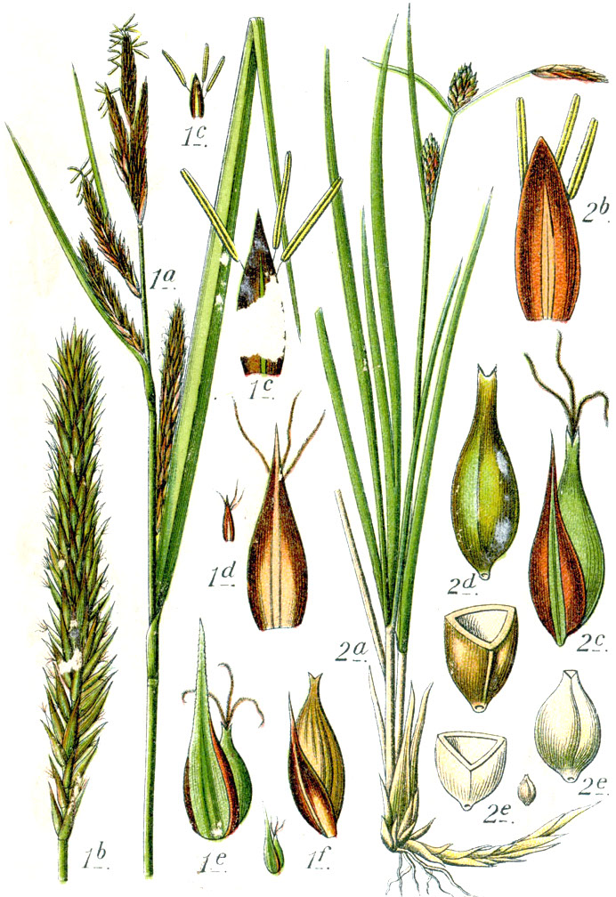 1. Carex riparia Curtis 2. Carex melanostachya M. Bieb. ex Willd., syn. Carex nutans Host non J. F. Gmel. (1791), nom. ill. Original Caption 1. Ufer-Segge, Carex riparia 2. Nickende Segge, C. nutans